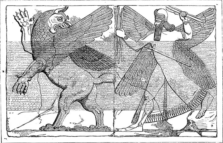 Enlil's battle with Anzu, line drawing from an Assyrian relief.